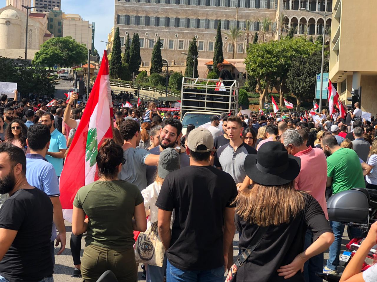 2019 Lebanese protests - Beirut